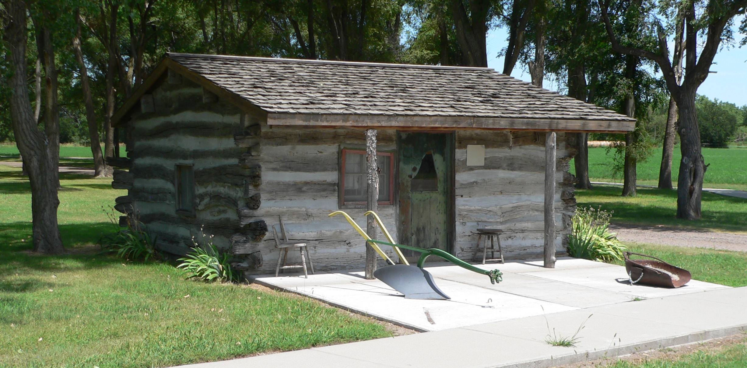 Log cabin in park in Holbrook, Nebraska; seen from the southwest. A sign to the right of the door indicates that it was built in 1874.